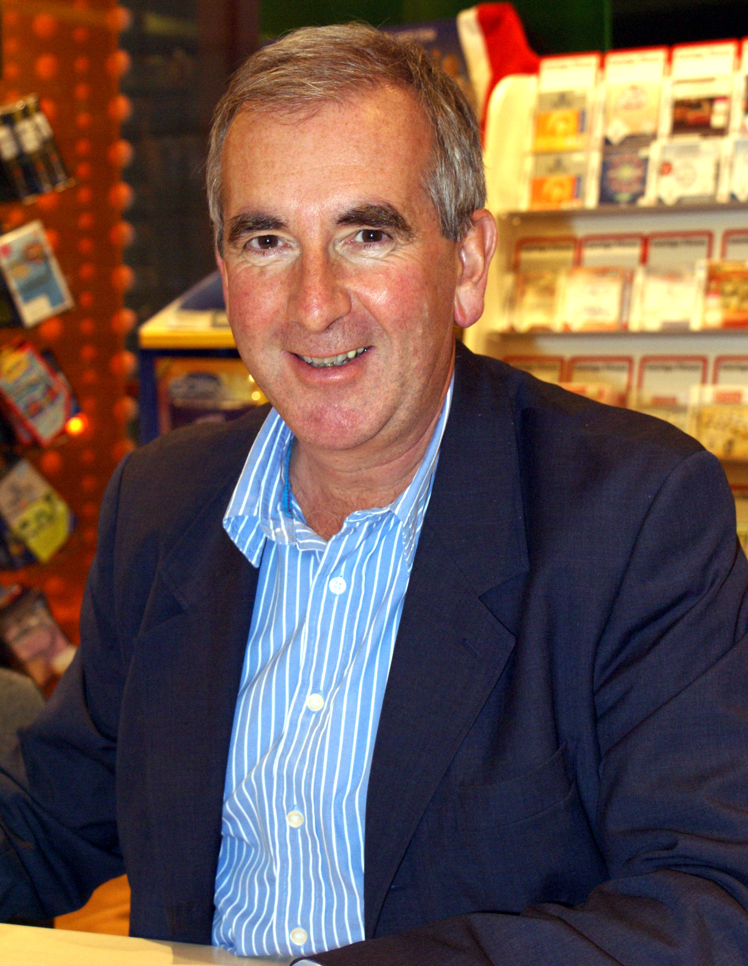 Robert Harris in Cologne on November 19th 2009